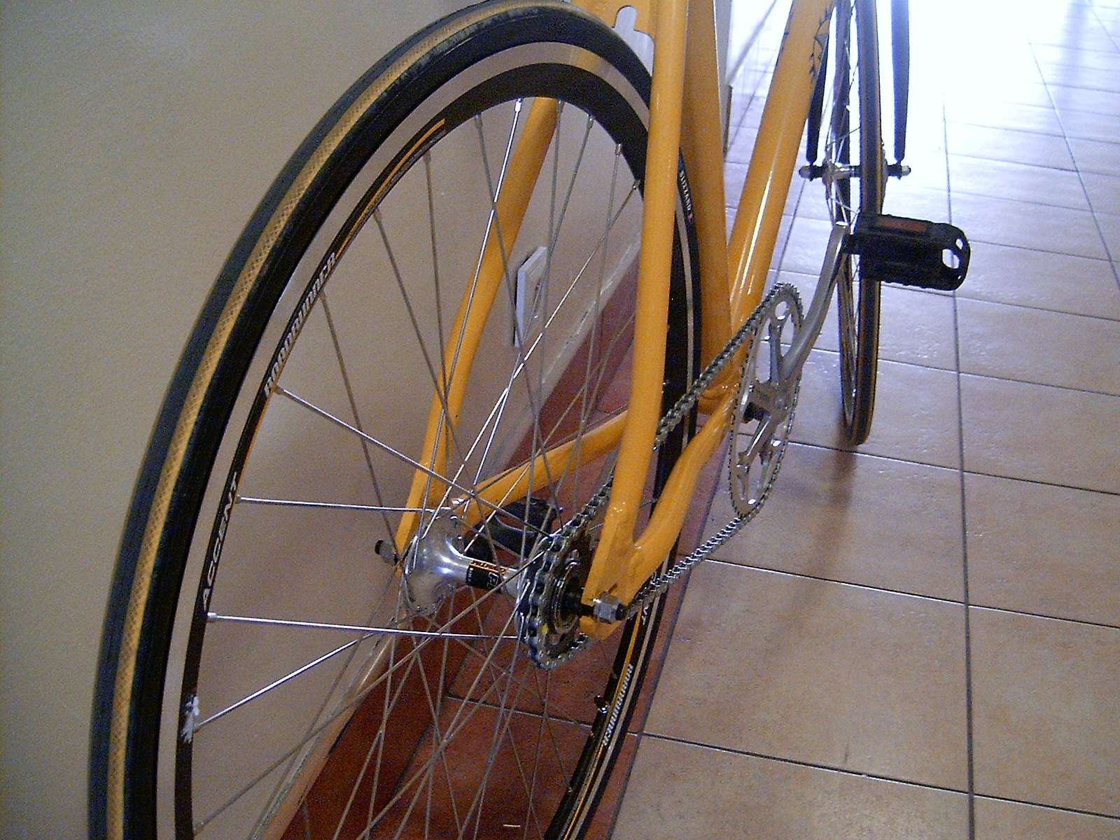 fixed gear, miche primato